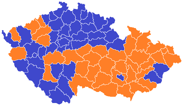 Elections to the Chamber of Deputies in 2006 - winning party by districts (blue ODS, orange ČSSD)